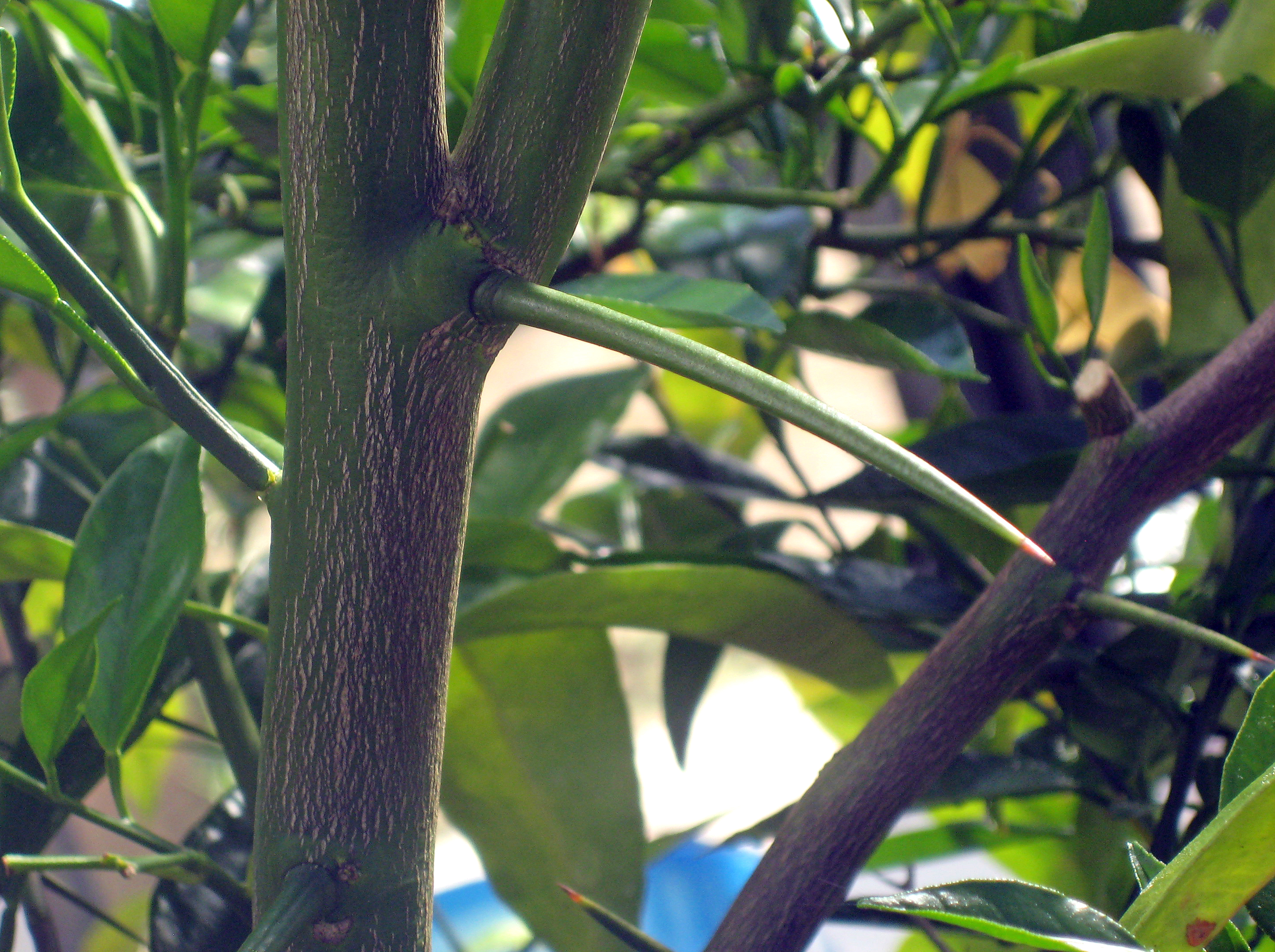 Thorn of a 10 year old citrus tree